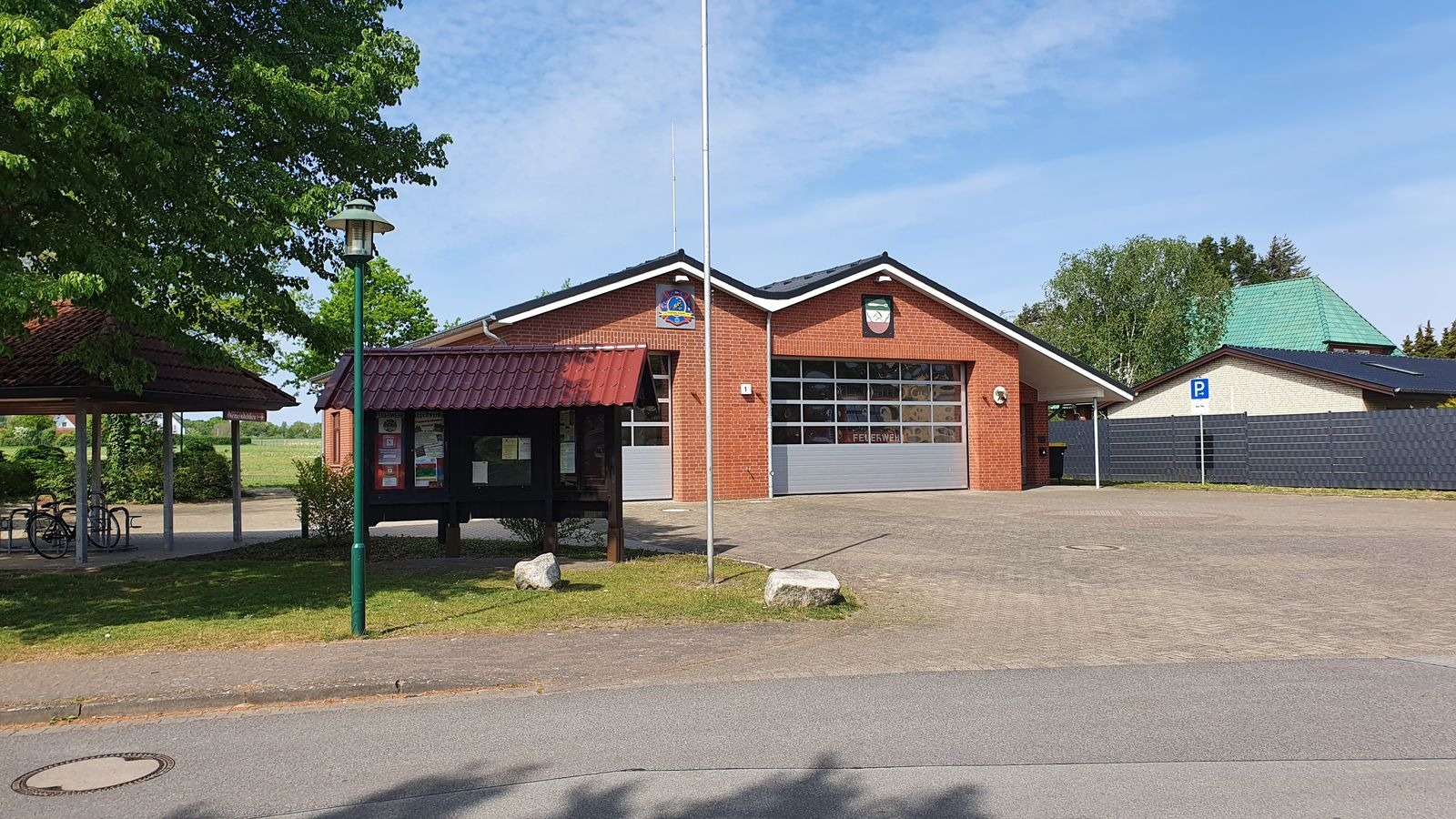 Firestation Wistedt